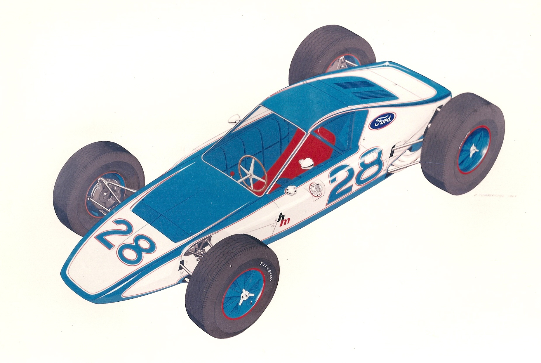 John Crosthwaite Holman Moody Indy car design